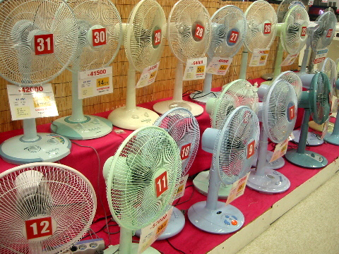 Electric fans waiting to be sold in a Korean department store. Picture taken by myself (Na-Rae Han). Note the presence of time switches beside the control switches.